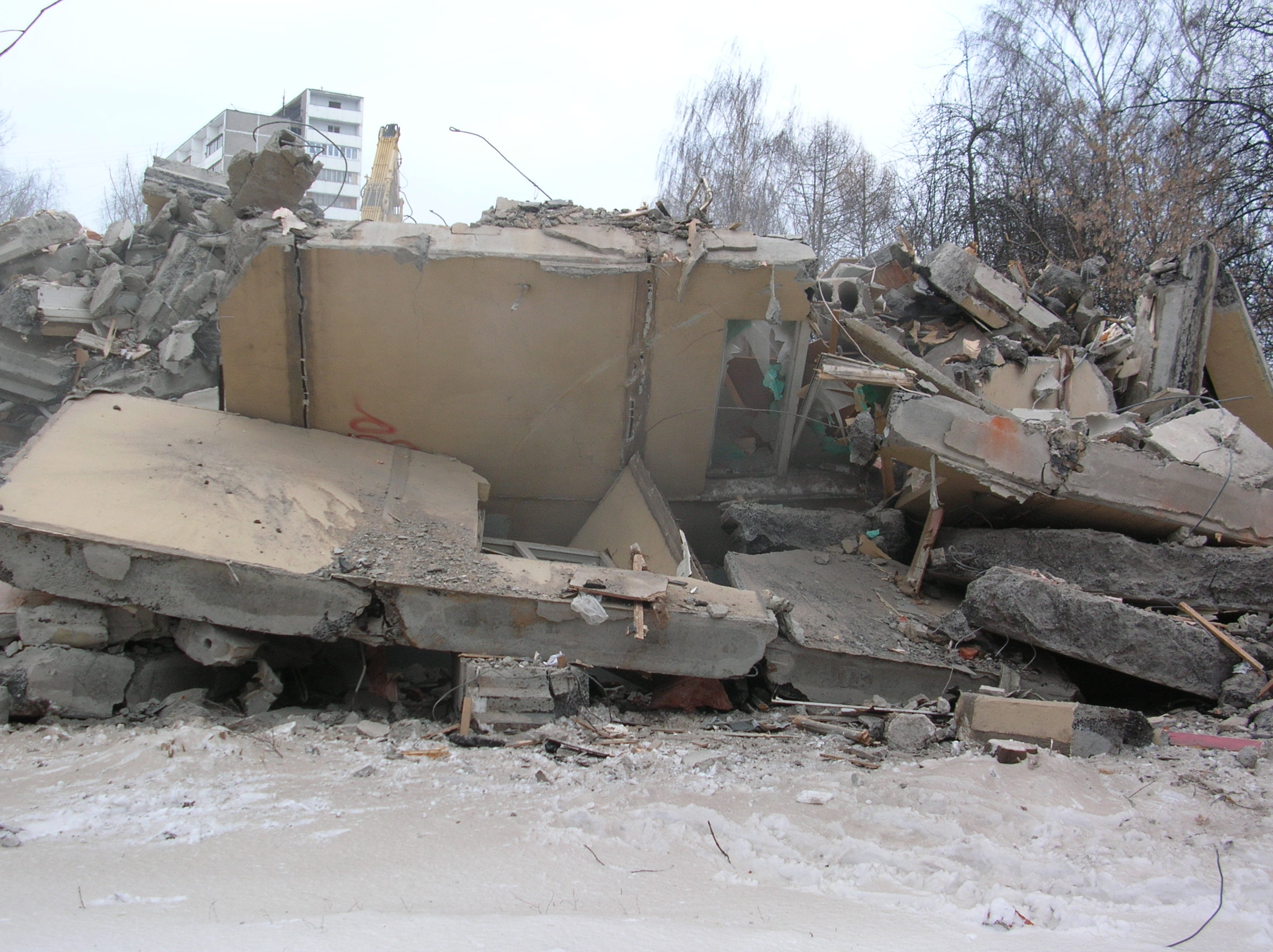 Destroyed Khruschev house in Moscow